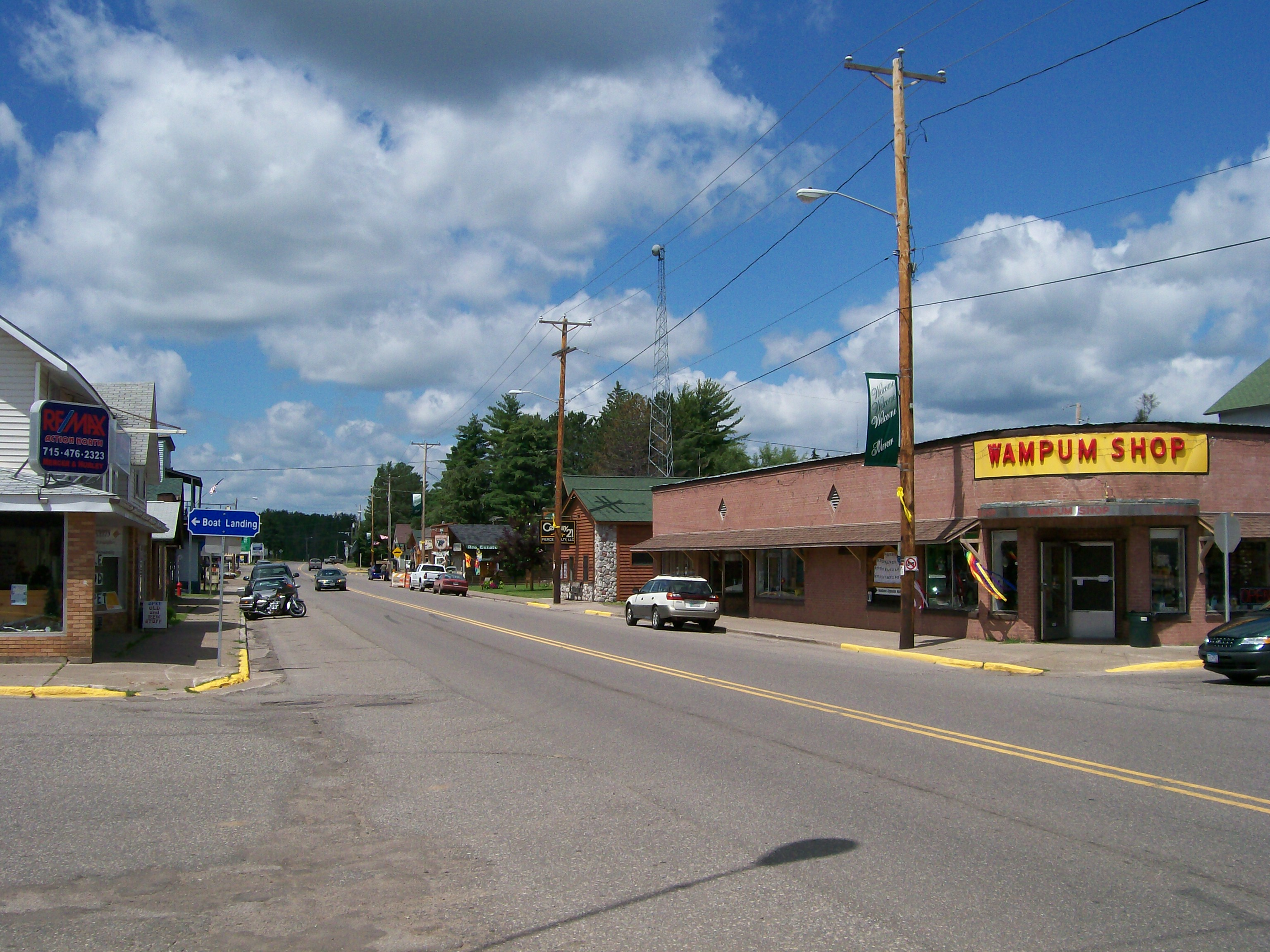 Mercer, WI. View of intersection looking northwest on Hwy 51 and Main street